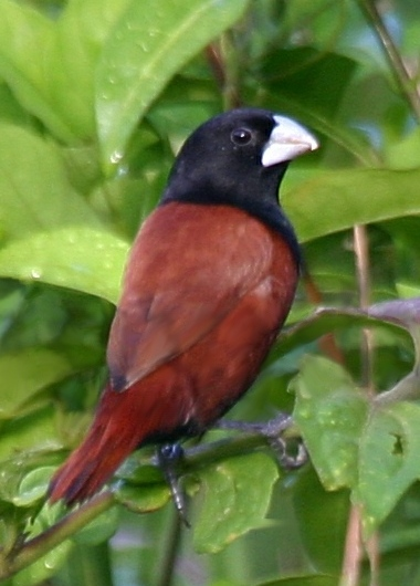 Black-headed Munia at Island Garden City of Samal, Davao del Norte, Philippines.